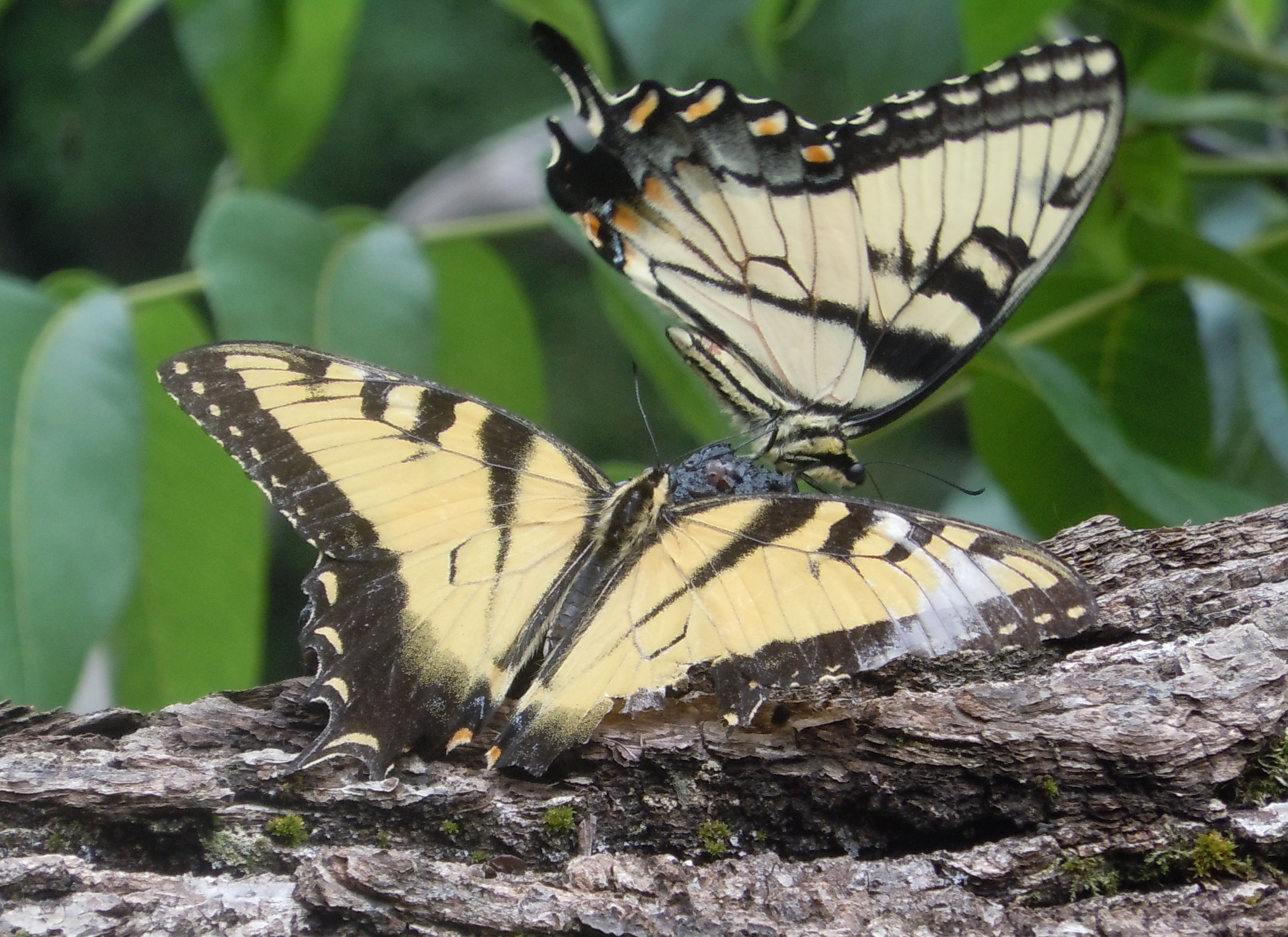 Pair of Eastern Tiger Swallowtails (Papilio glaucus)on Galien River logjam above kayak livery put in, upstream of Red Arrow Highway.